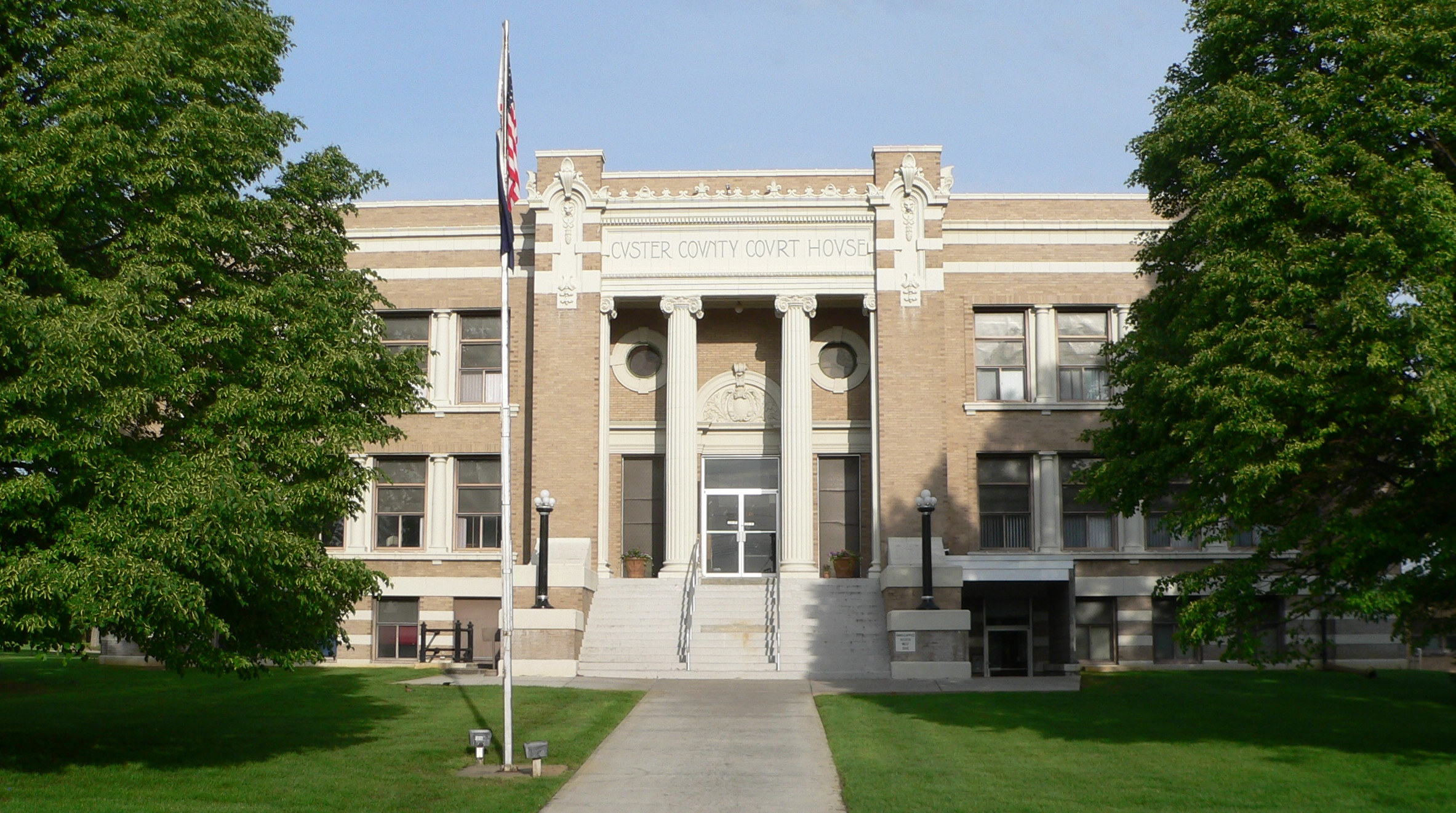 Custer County Courthouse in Broken Bow, Nebraska; seen from the east. The Classical Revival building was constructed in 1911. The Custer County Courthouse and Jail complex is listed in the National Register of Historic Places.